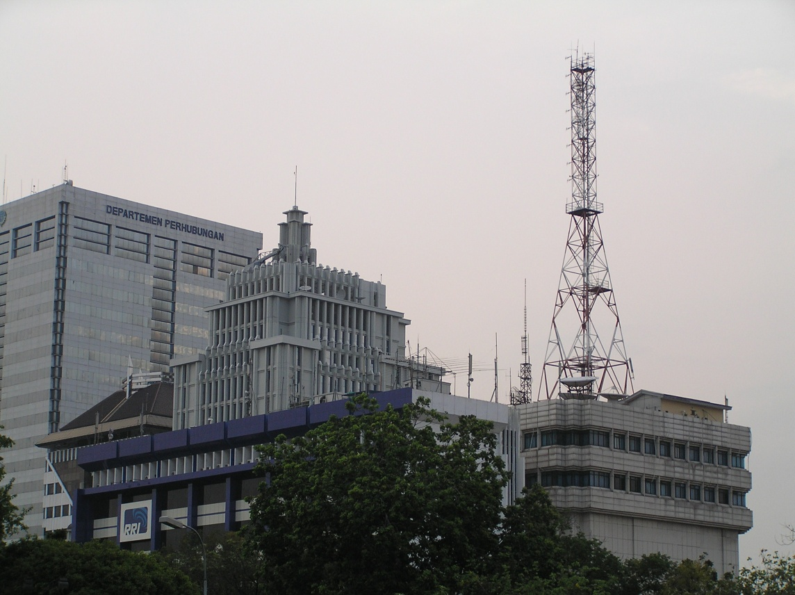 The headquarters of Radio Republik Indonesia - the Indonesian state radio broadcaster